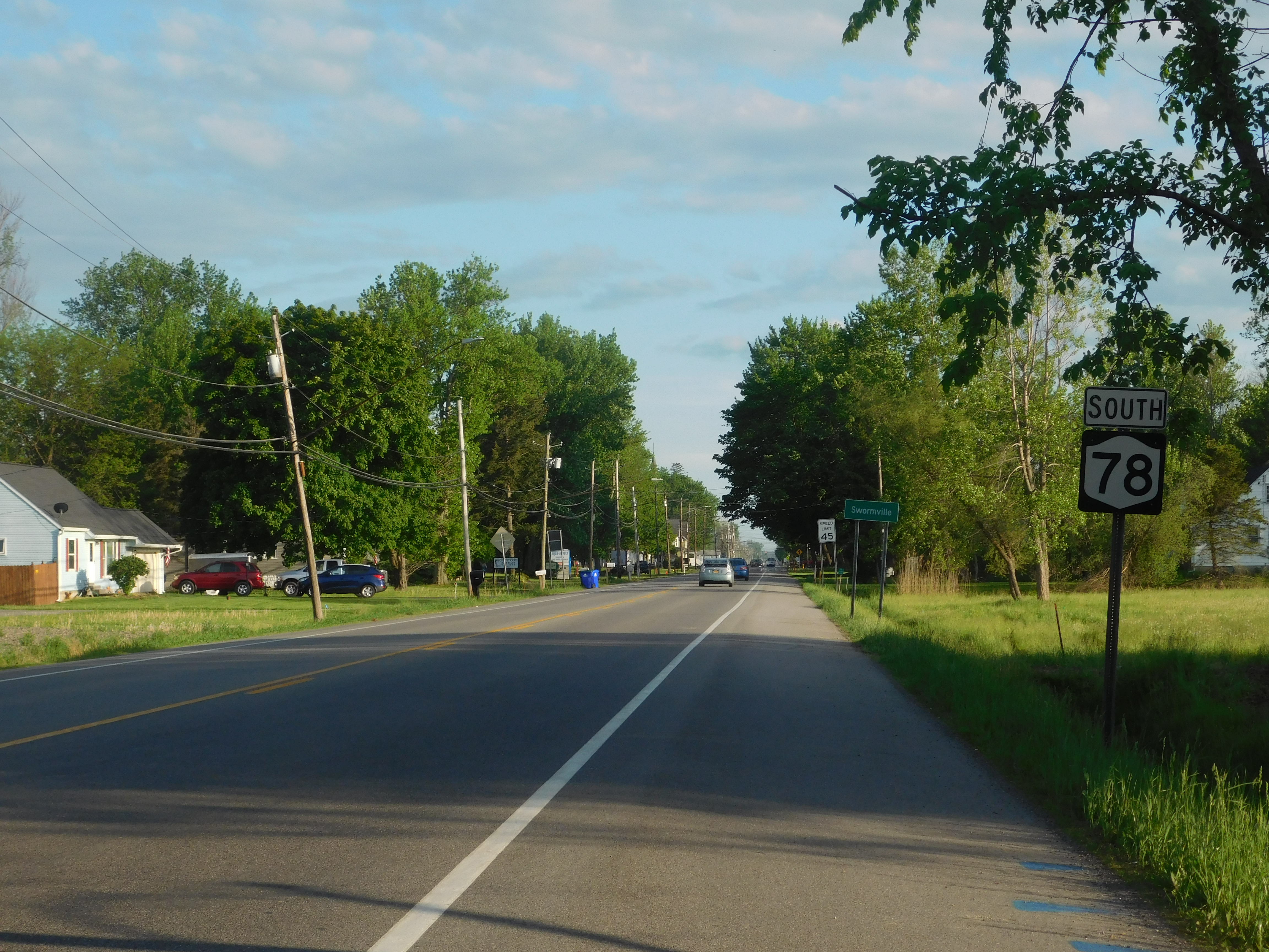 New York State Route 78 southbound in Swormville, New York.